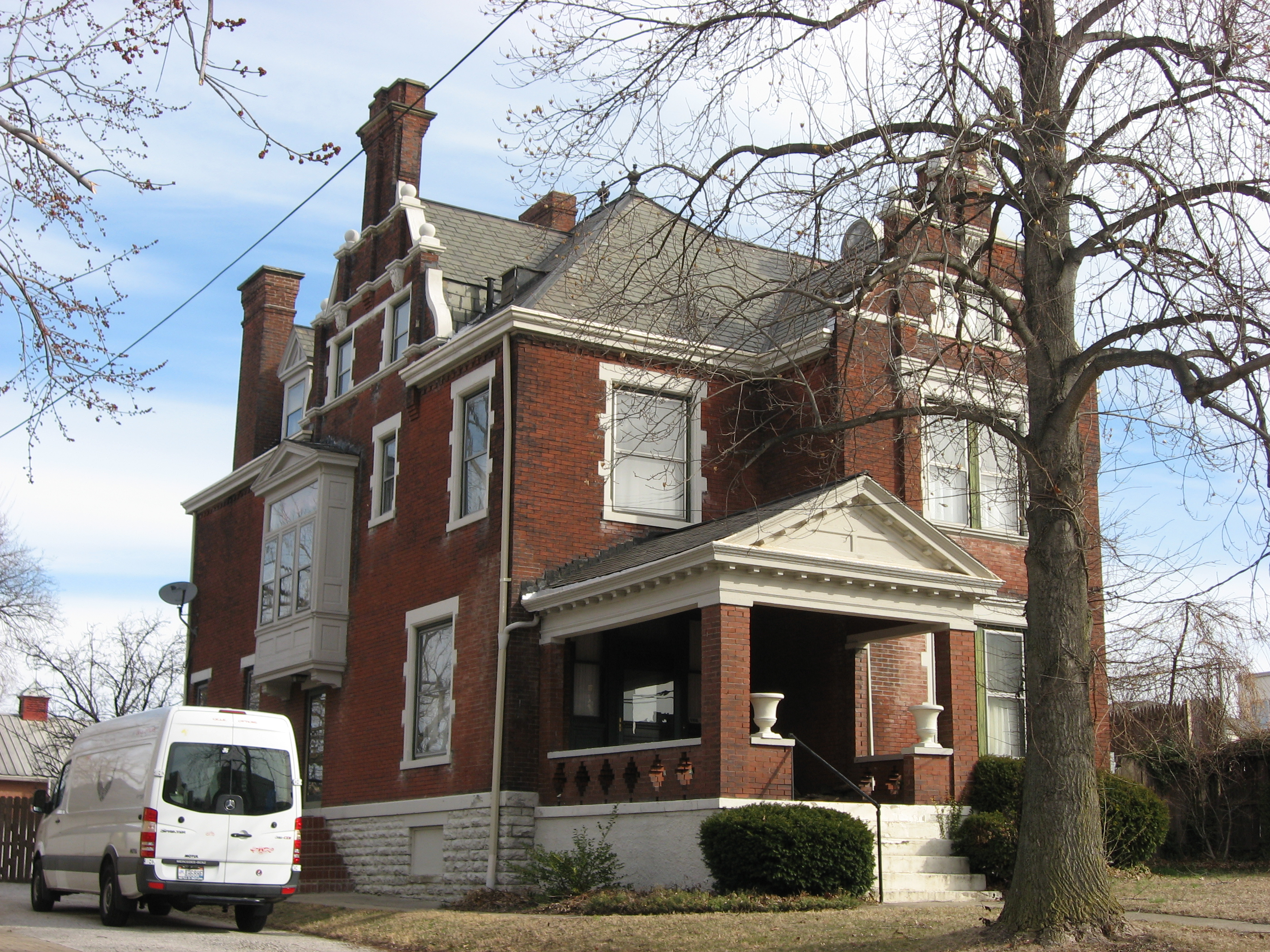 Front and western side of the A. M. Detmer House, located at 1520 E. Chapel Street in the Walnut Hills neighborhood of Cincinnati, Ohio, United States. Built in 1885, it is listed on the National Register of Historic Places.